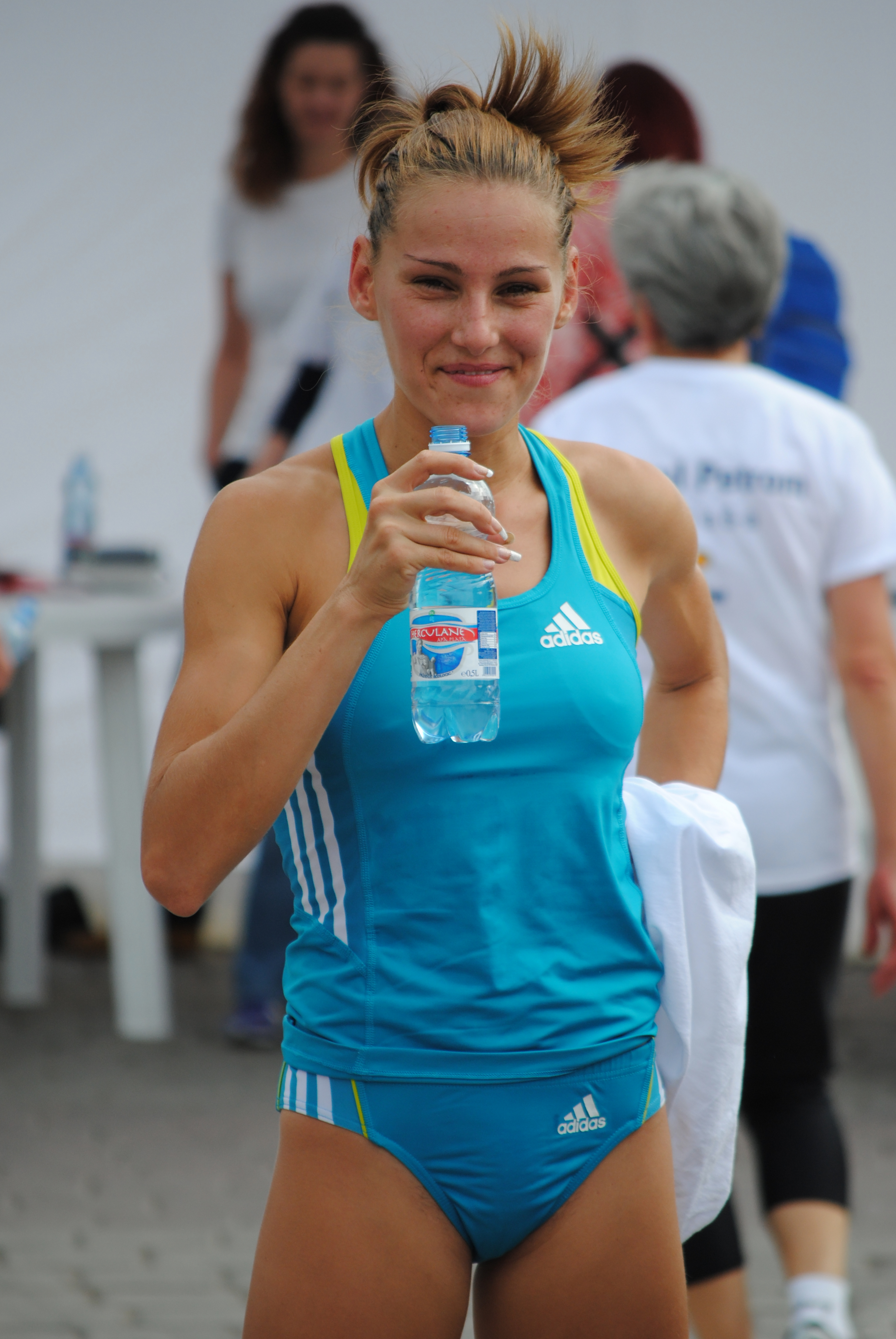 Bobocel Ancuţa, professional athlete, finishes first in the 6th edition of Petrom Cross in Bucharest, on Sep. 25 2011